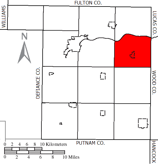 Made by the US Census and modified by myself